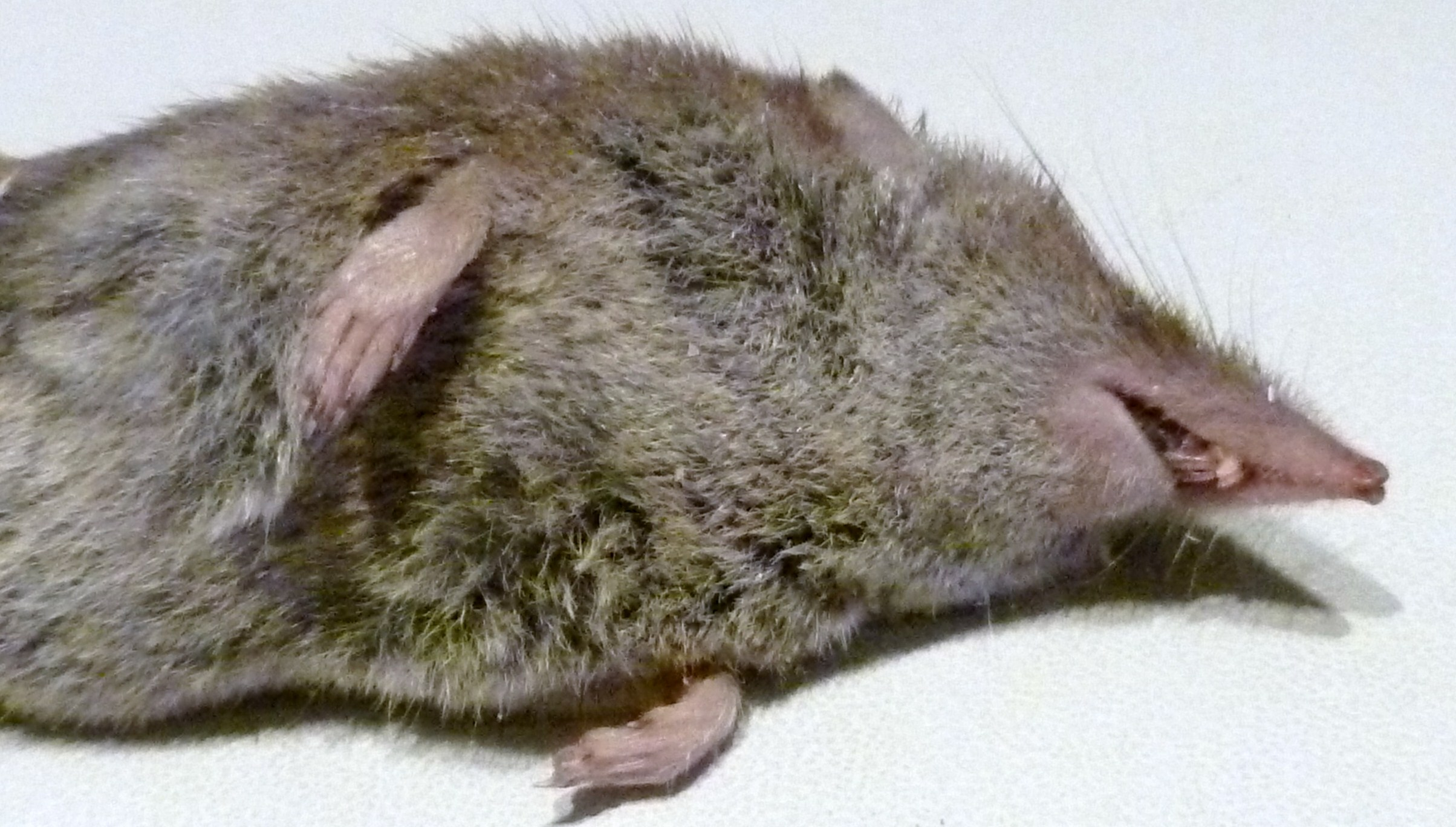 Belly of Crocidura russula; body length : 65 mm; length of the tail : 40 mm; Belgium